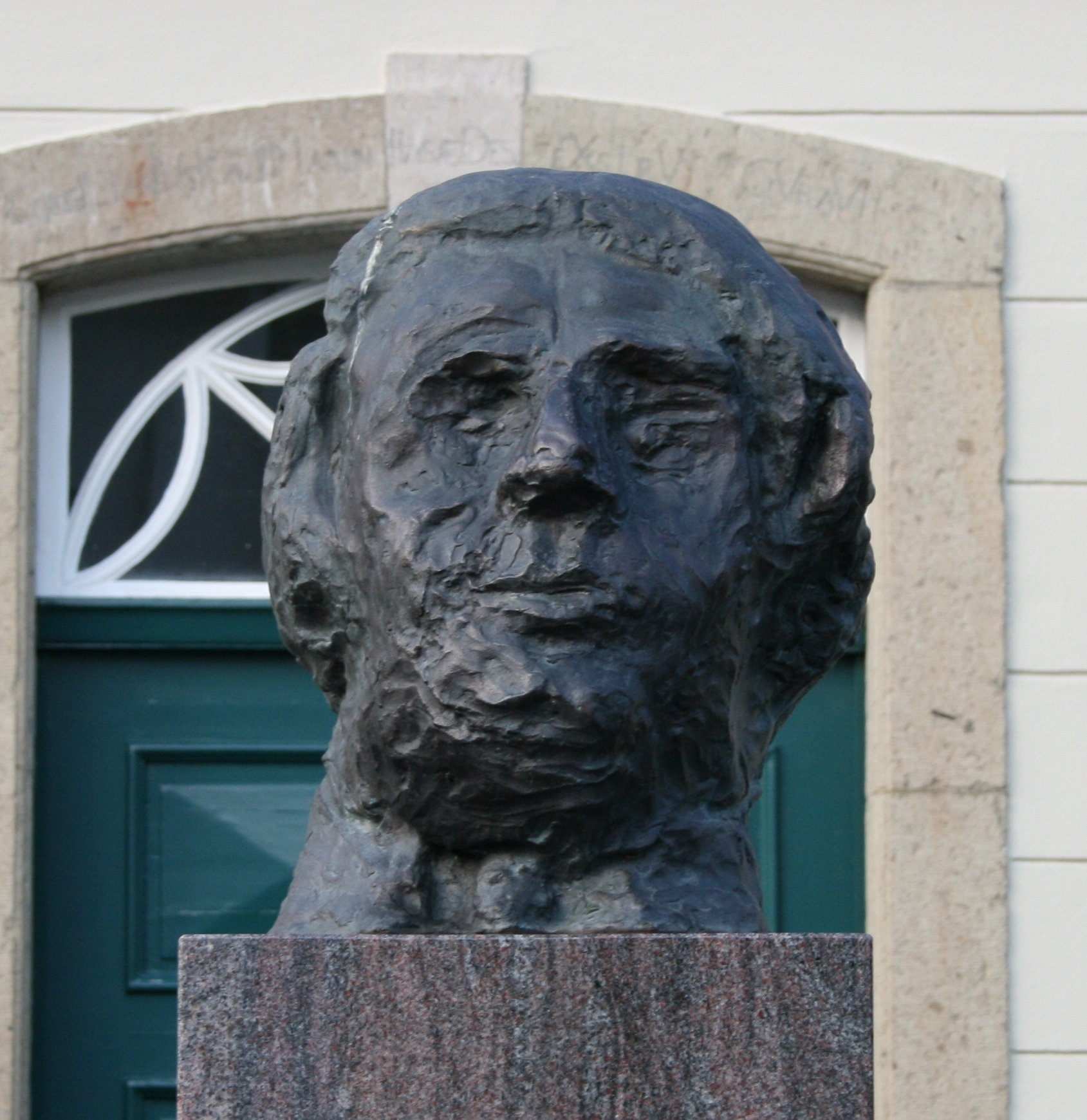 Sculpture head of Robert Schumann in front of Schumannhaus in Bonn, Germany; made by Austrian sculptor and painter Alfred Hrdlicka in 2003.